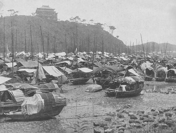 Hong Kong Tankas boat in 1930s